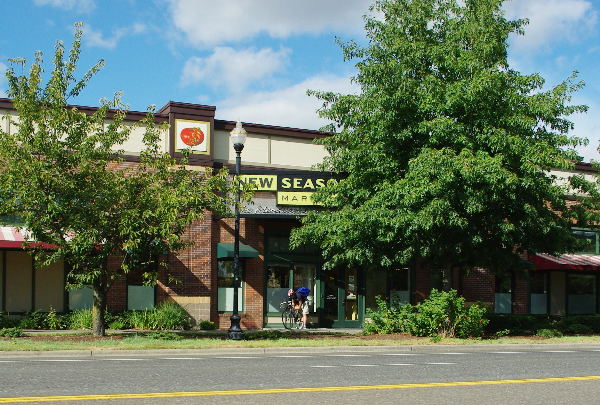 New Seasons Market in Orenco Station area of Hillsboro, Oregon.